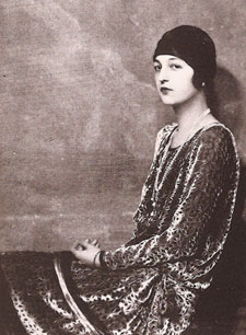 Photo of Ava Astor circa 1920